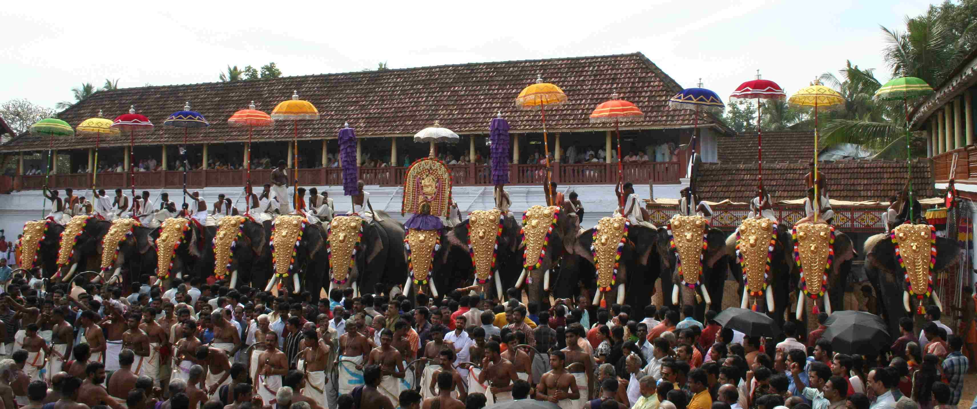 Caparisoned elephants during Sree Poornathrayesa temple festival, Thrippunithura, Kerala, South India.